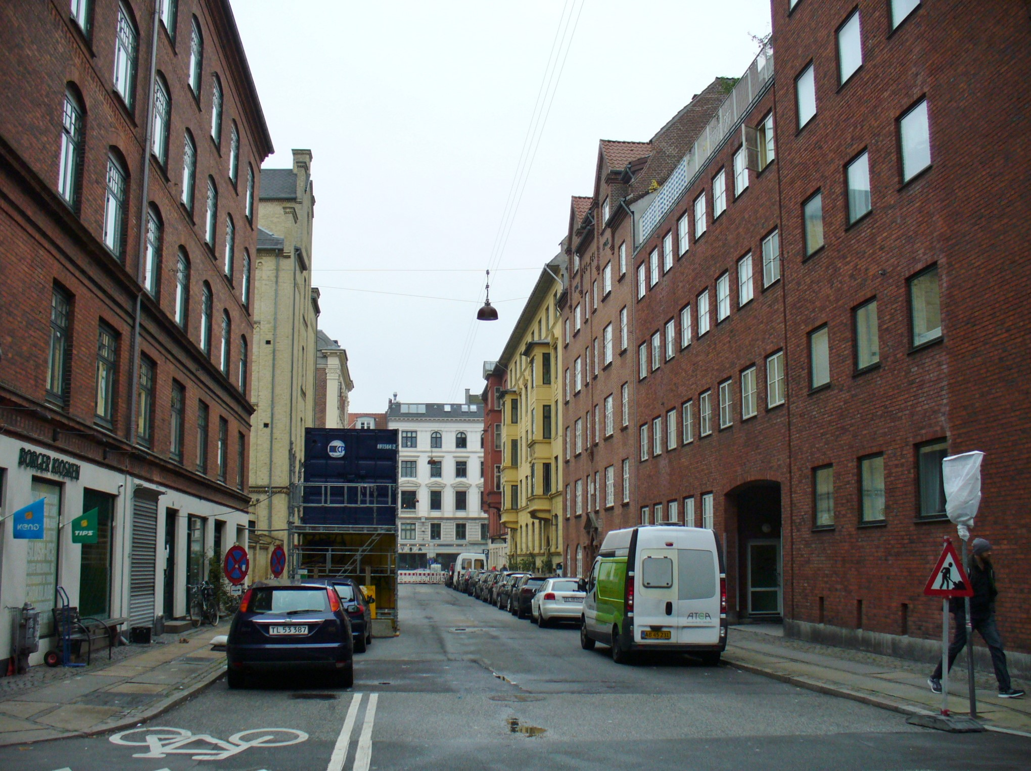 The street Hindegade in Indre By in Copenhagen.